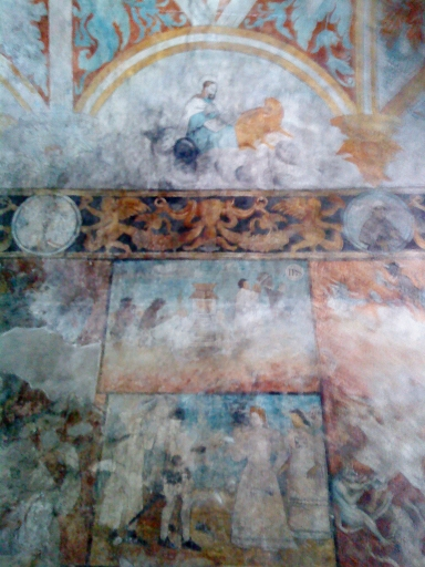 Paintings on Xoxoteco chapel walls